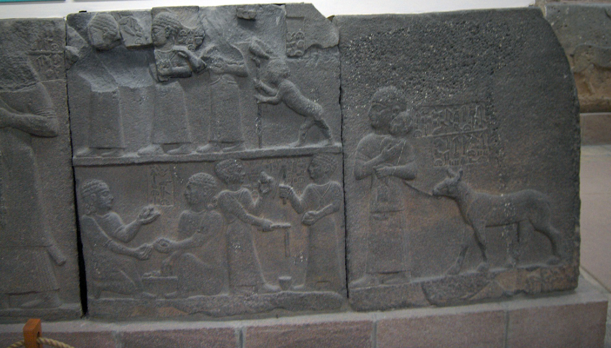 The younger brothers of king Kamanas playing games; basalt; Carchemish; 717-691 BC; Museum of Anatolian Civilizations, Ankara, Turkey